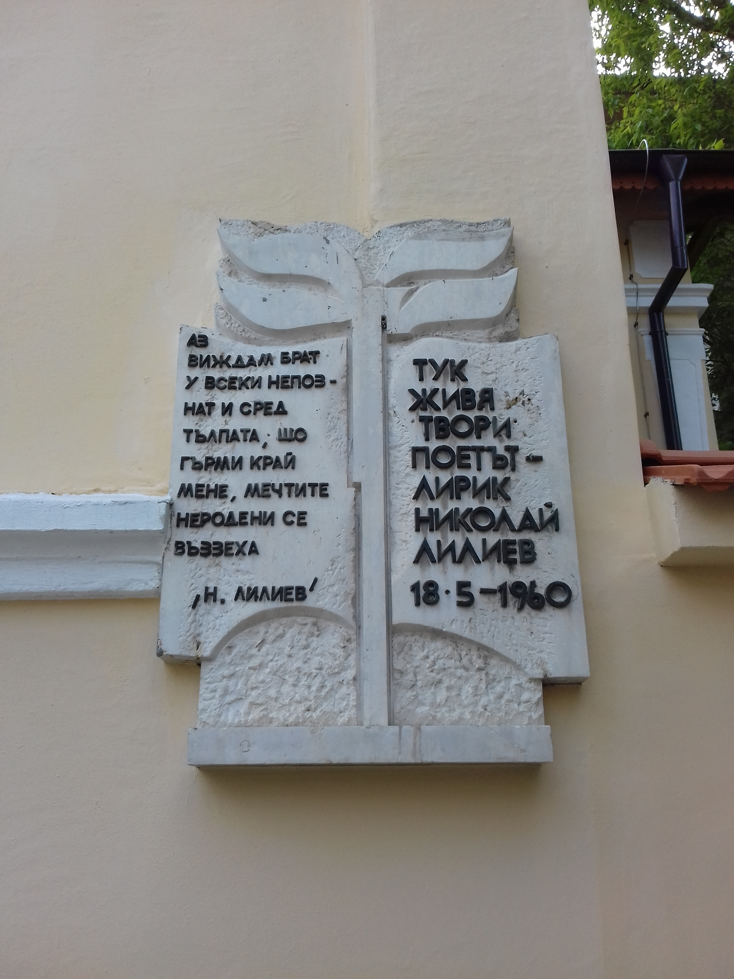 Nikolay Liliev's house in Stara Zagora, Bulgaria.